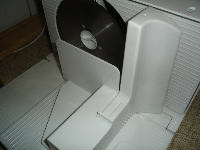 cutter